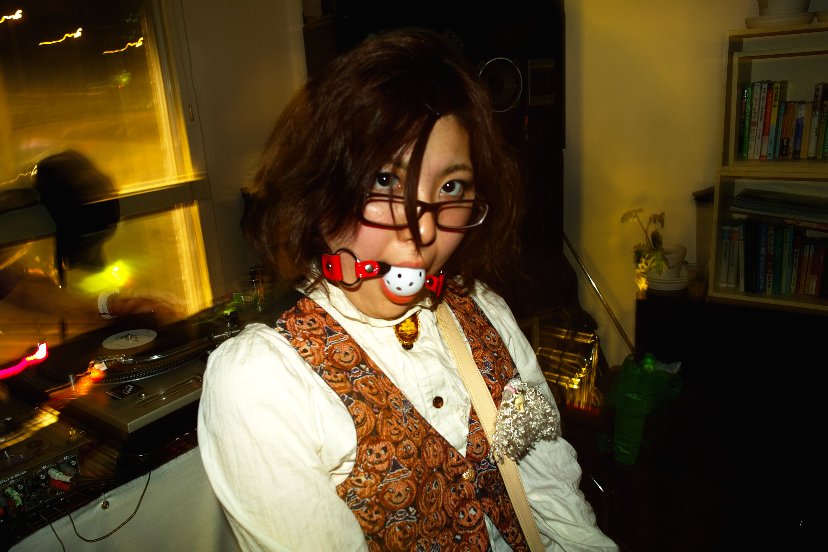 A woman demonstrates use of the gag ball.